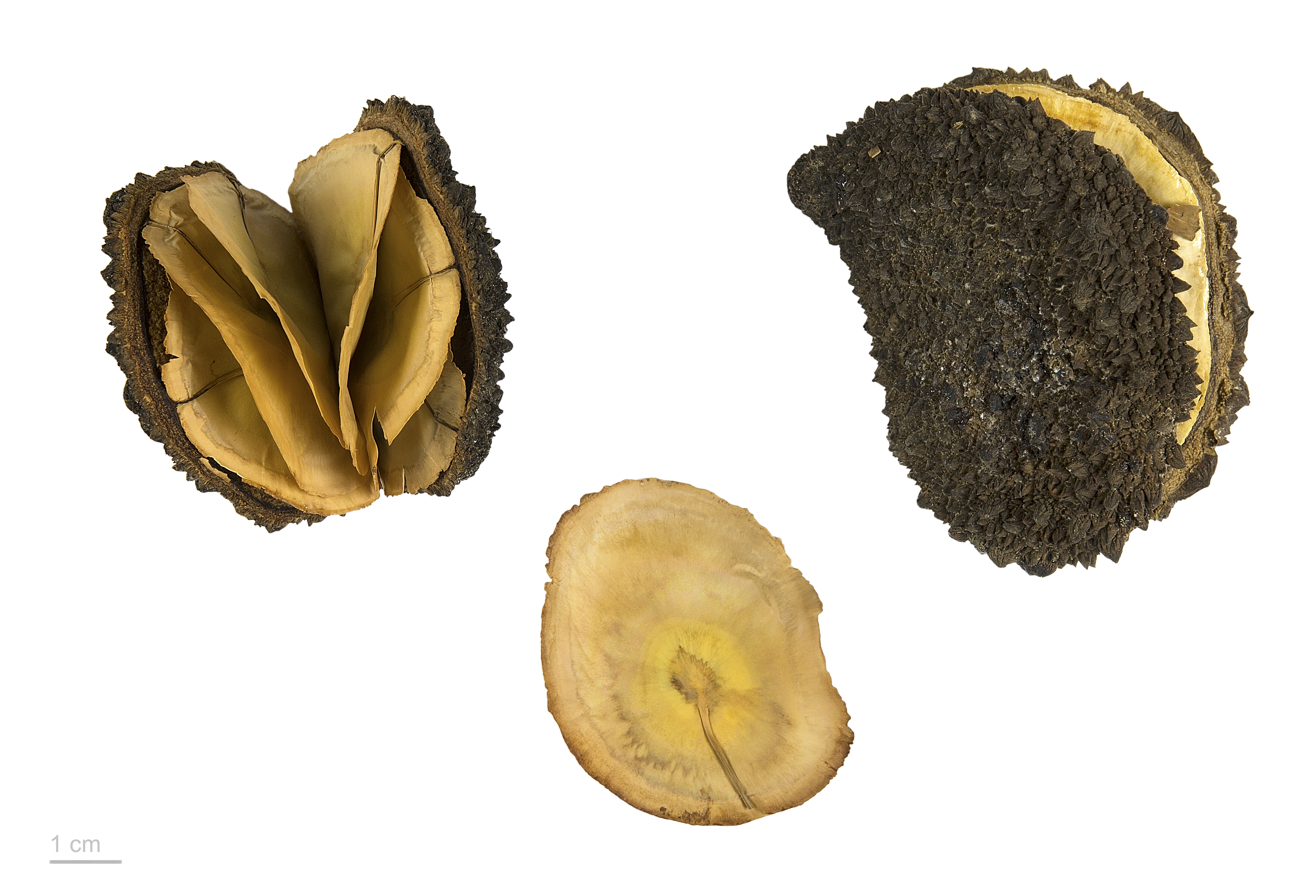 Aspidosperma carapanauba, fruits